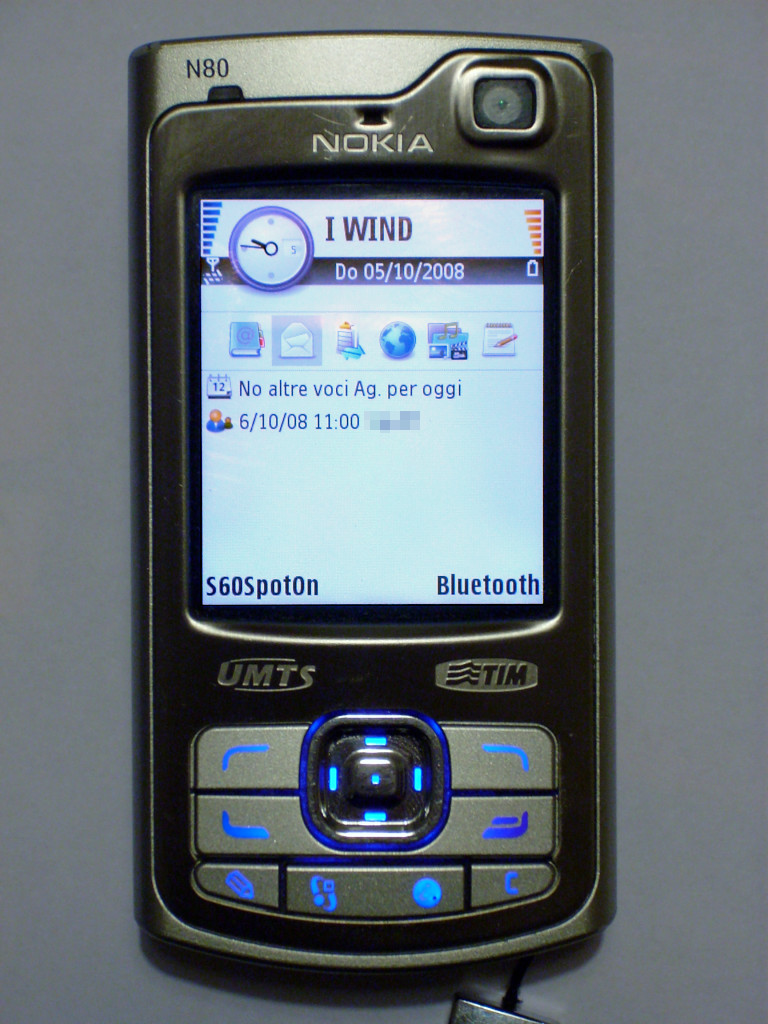 Smartphone Nokia N80